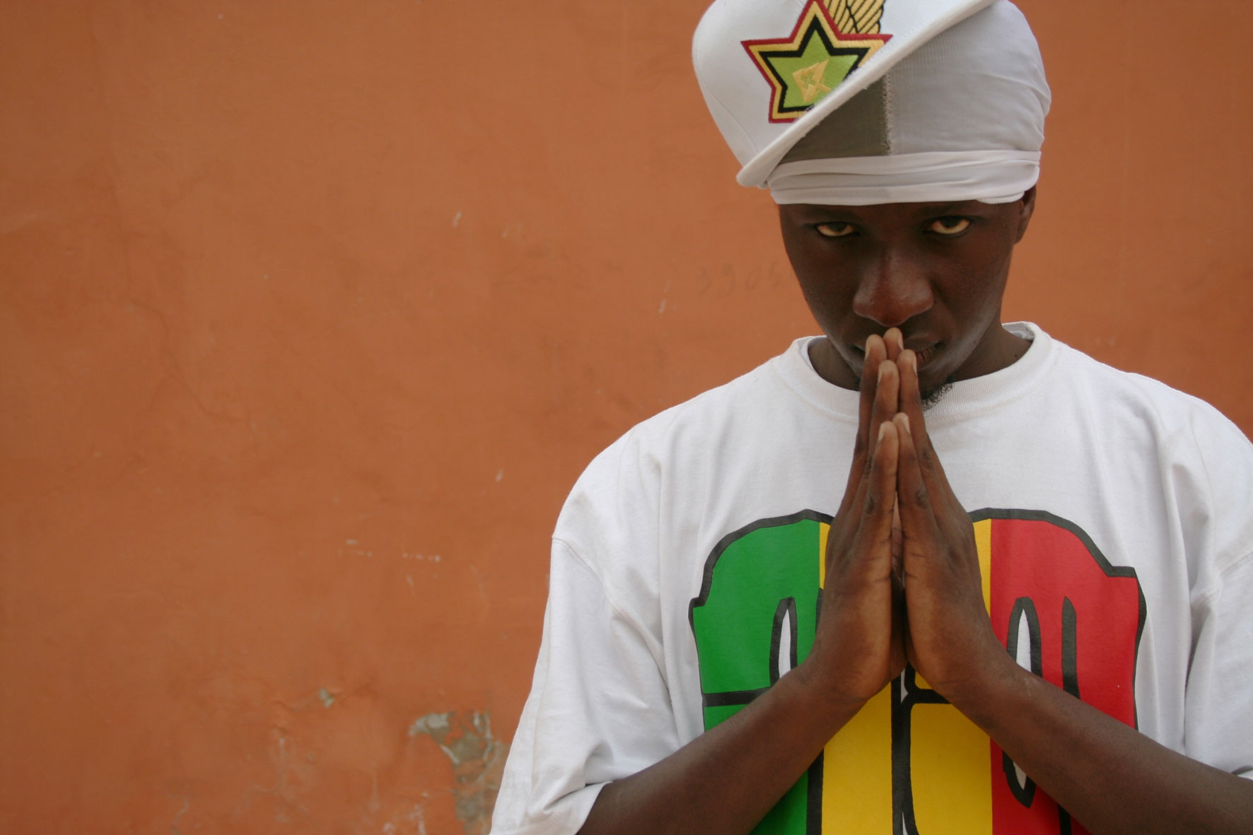 Portrait of the Hip Hop artist Simon Bisbi Clan by Sandy Haessner